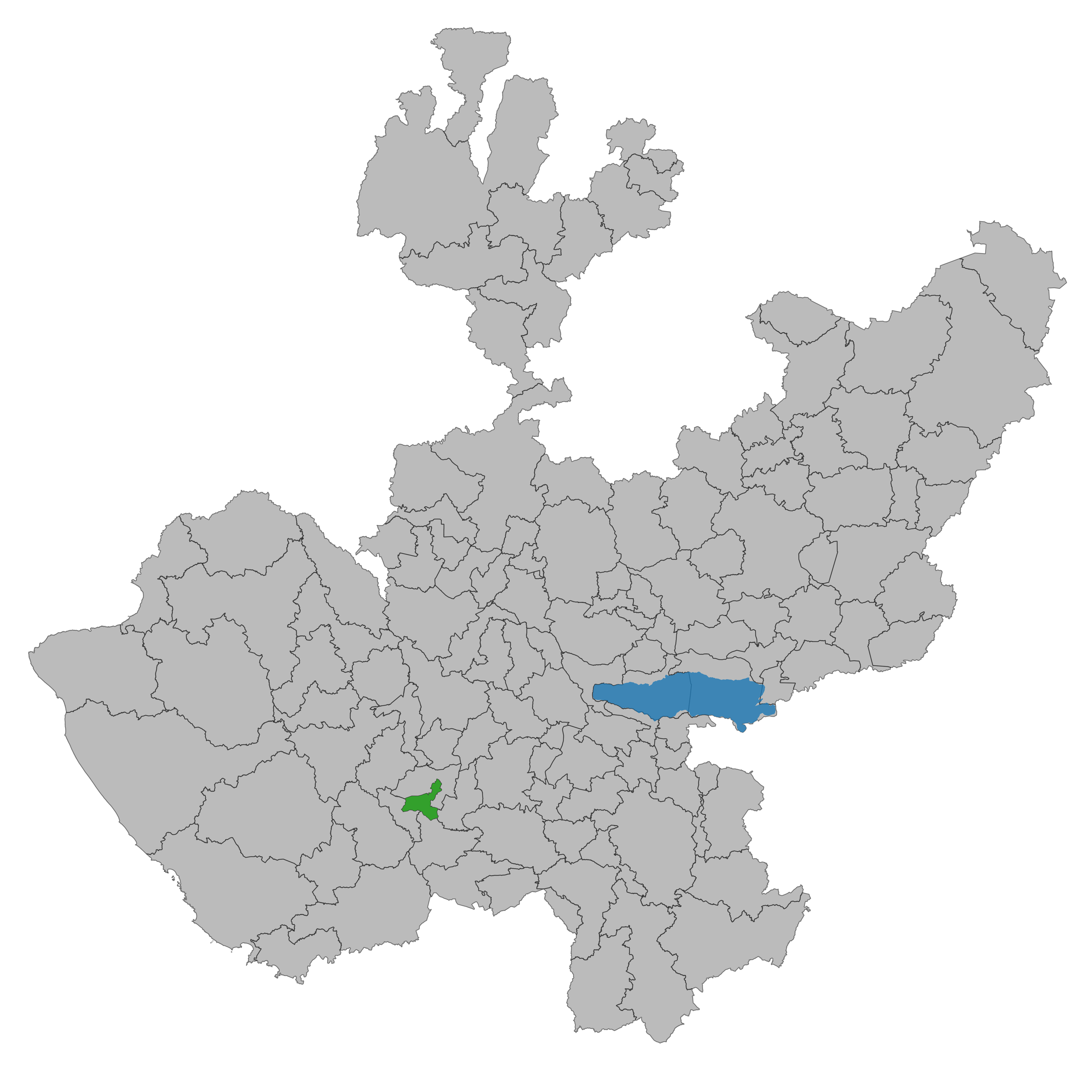 Municipality of Jalisco. Prepared with the software QGIS version 2.8.2 Wien & with information of SCINCE 2010 version 05/2013